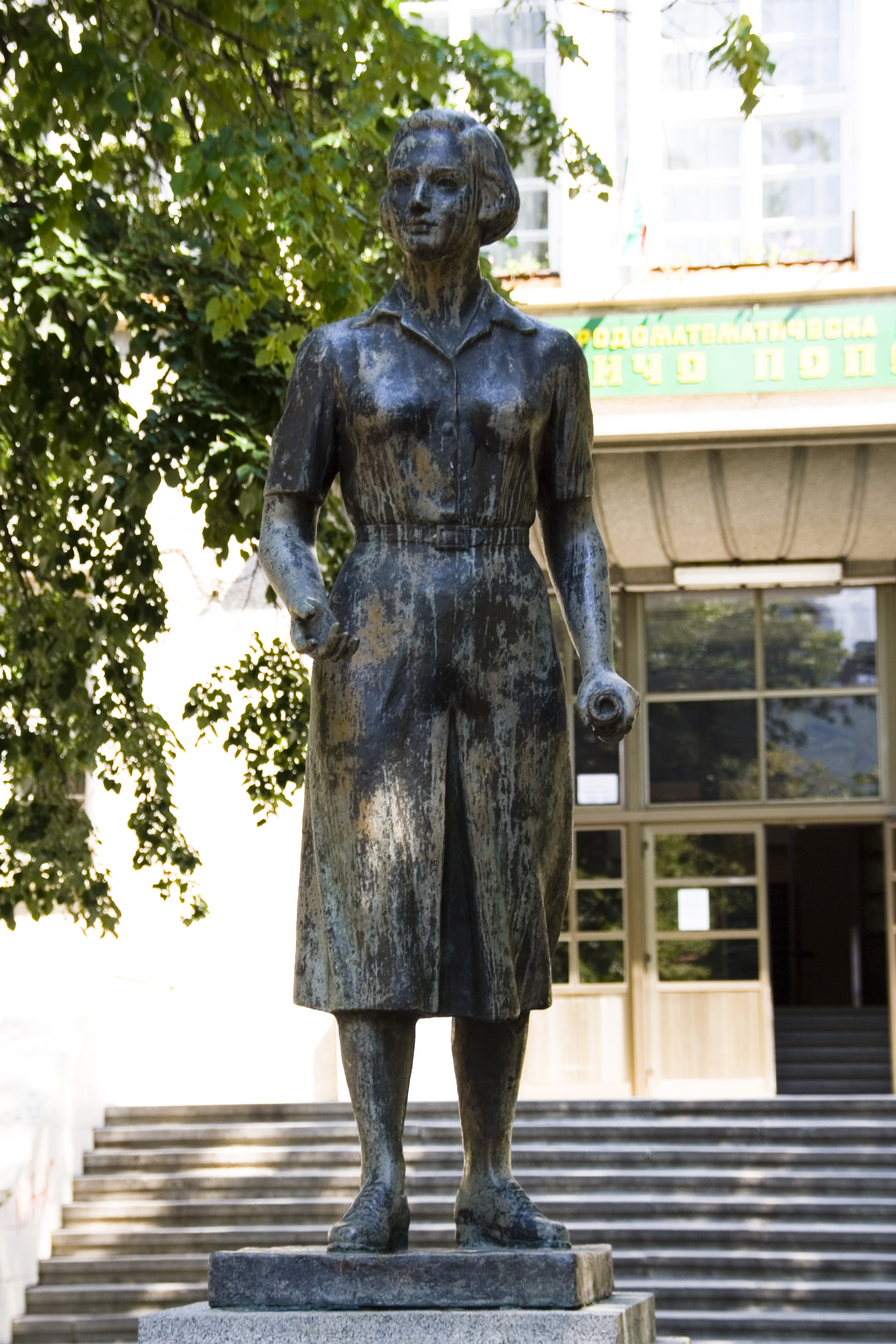 The monument of Lilyana Dimitrova, a former patron of high school PMG "Nancho Popovich". The monument is located in the front yard of the school PMG "Nancho Popovich" in city Shumen, Bulgaria.